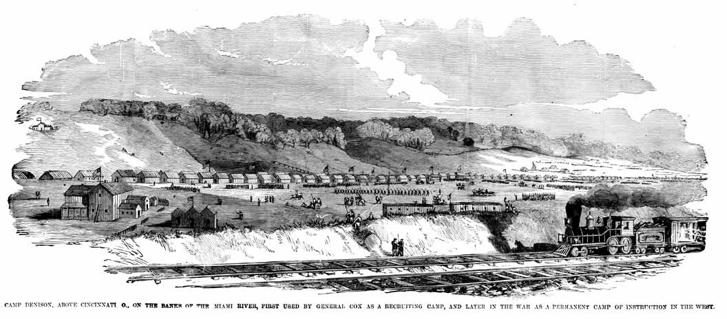 Camp Dennison near Cincinnati, Ohio. Etching by Frank Leslie, 1862. Leslie's Weekly Illustrated.